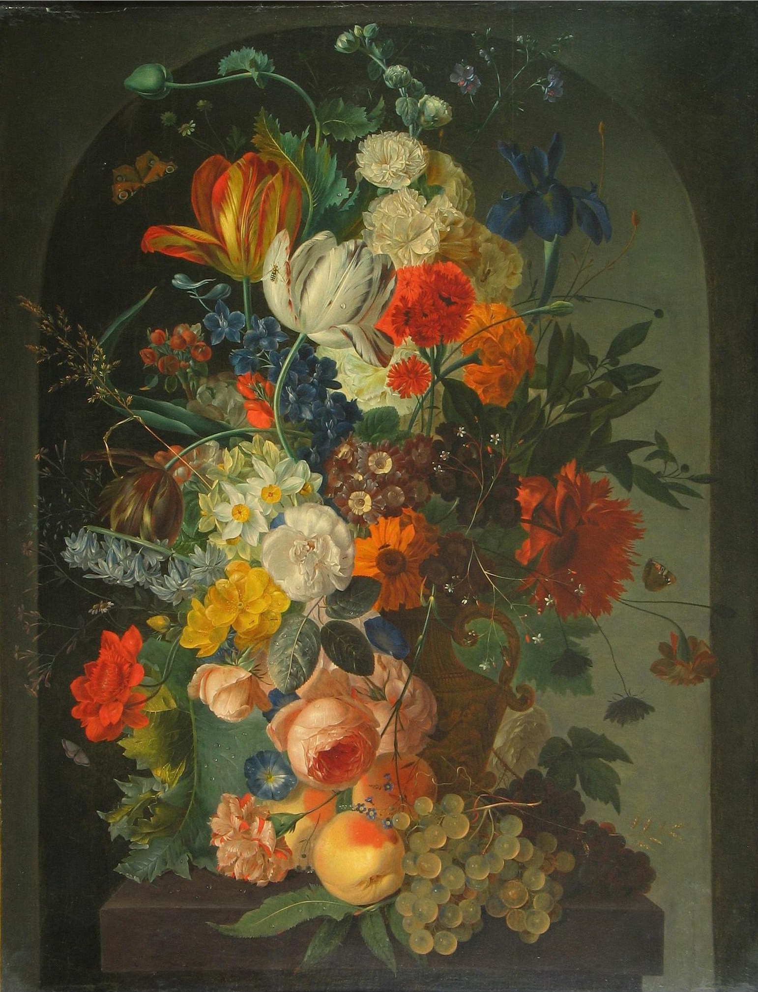 Still life